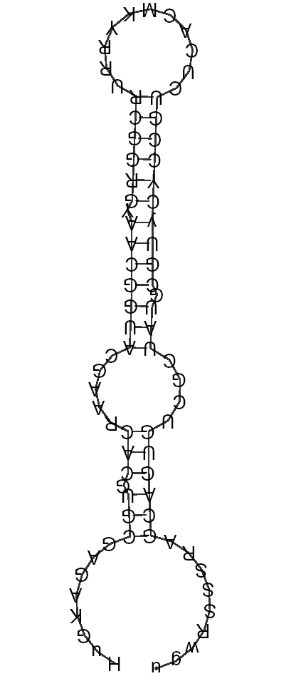 RNA secondary structure of TB10Cs3H1 generated by the WAR server( It is the consensus structure from 8 Trypansomatid species -Leishmania major, Leishmania infantum, Leishmania braziliensis, Trypanosoma brucei, Trypanosoma brucei gambiense, Trypanosoma cruzi, Trypanosoma congolense, Trypansoma vivax --with some manual editing and redrawing of the structure with RNAplot from the Vienna RNA package